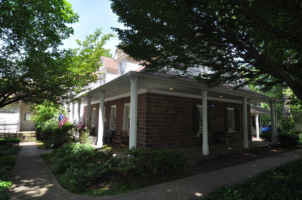 Garret Lydecker House, now a senior center and historical society, Englewood, New Jersey.